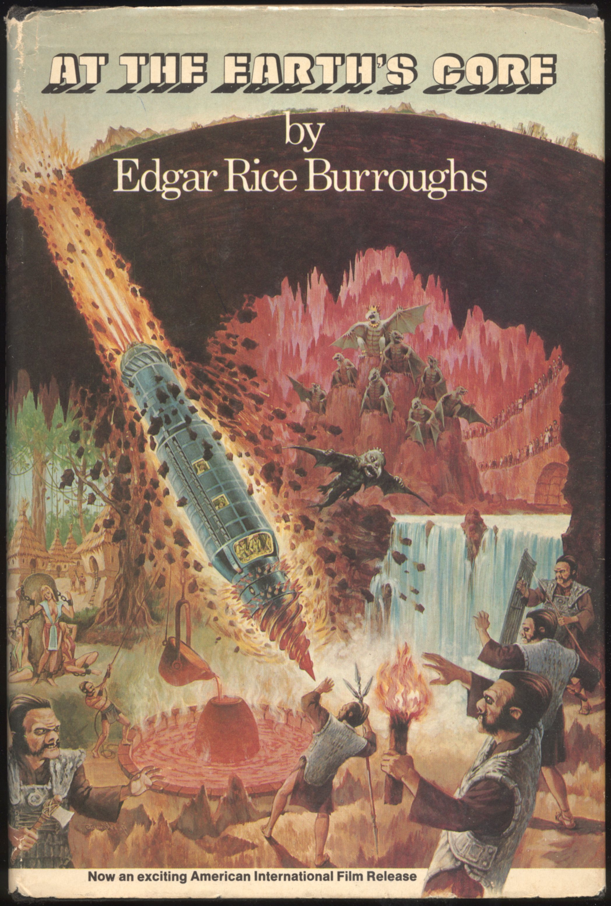 The front cover of At the Earth's Core from the 1976 Nelson Doubleday Book Club edition, "a full-color dust jacket from the spectacular American International Film".